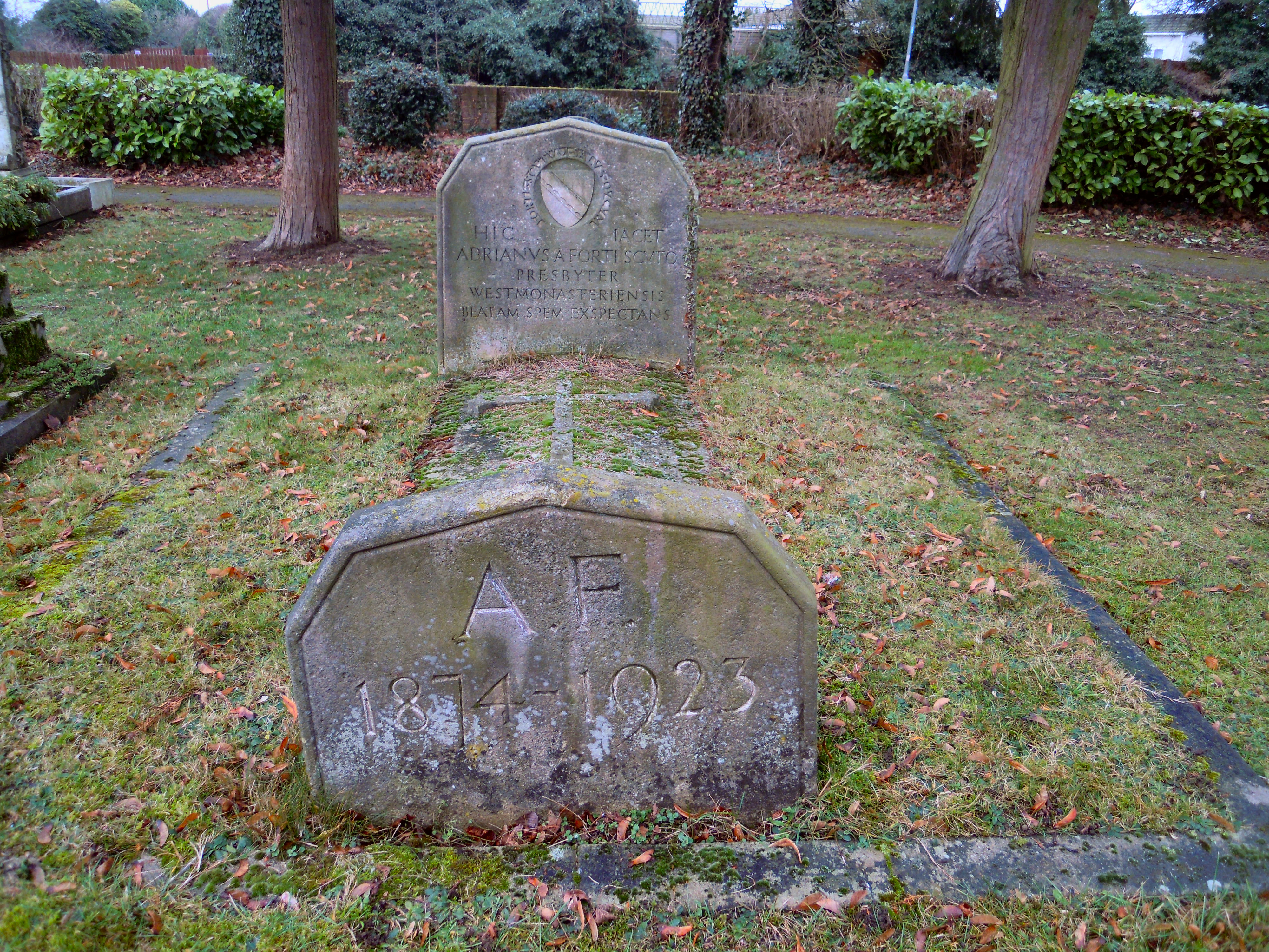 The grave of Adrian Fortescue in Letchworth Cemetery in Hertfordshire